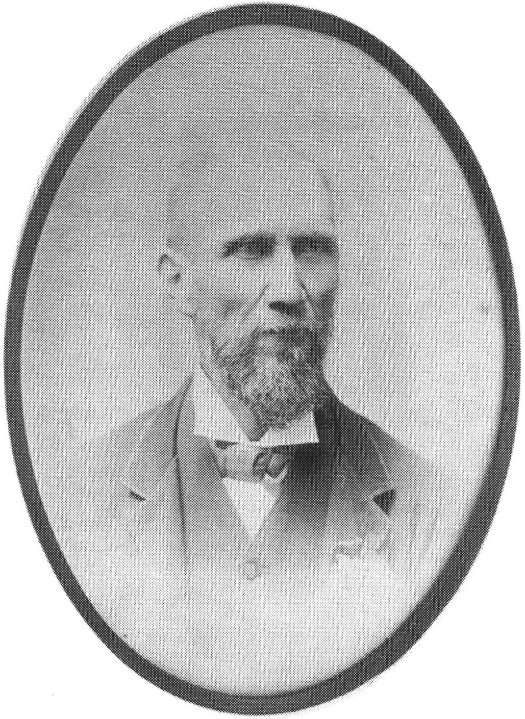 Charles Van Treight, a citizen of Ashfield, New South Wales, Australia. At one stage he was the sexton of St John the Baptist Anglican Church, Ashfield.